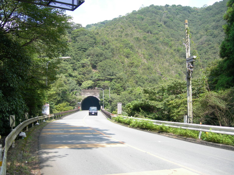 Mie prefectural route No.32, between Ise city and Shima city in Japan.